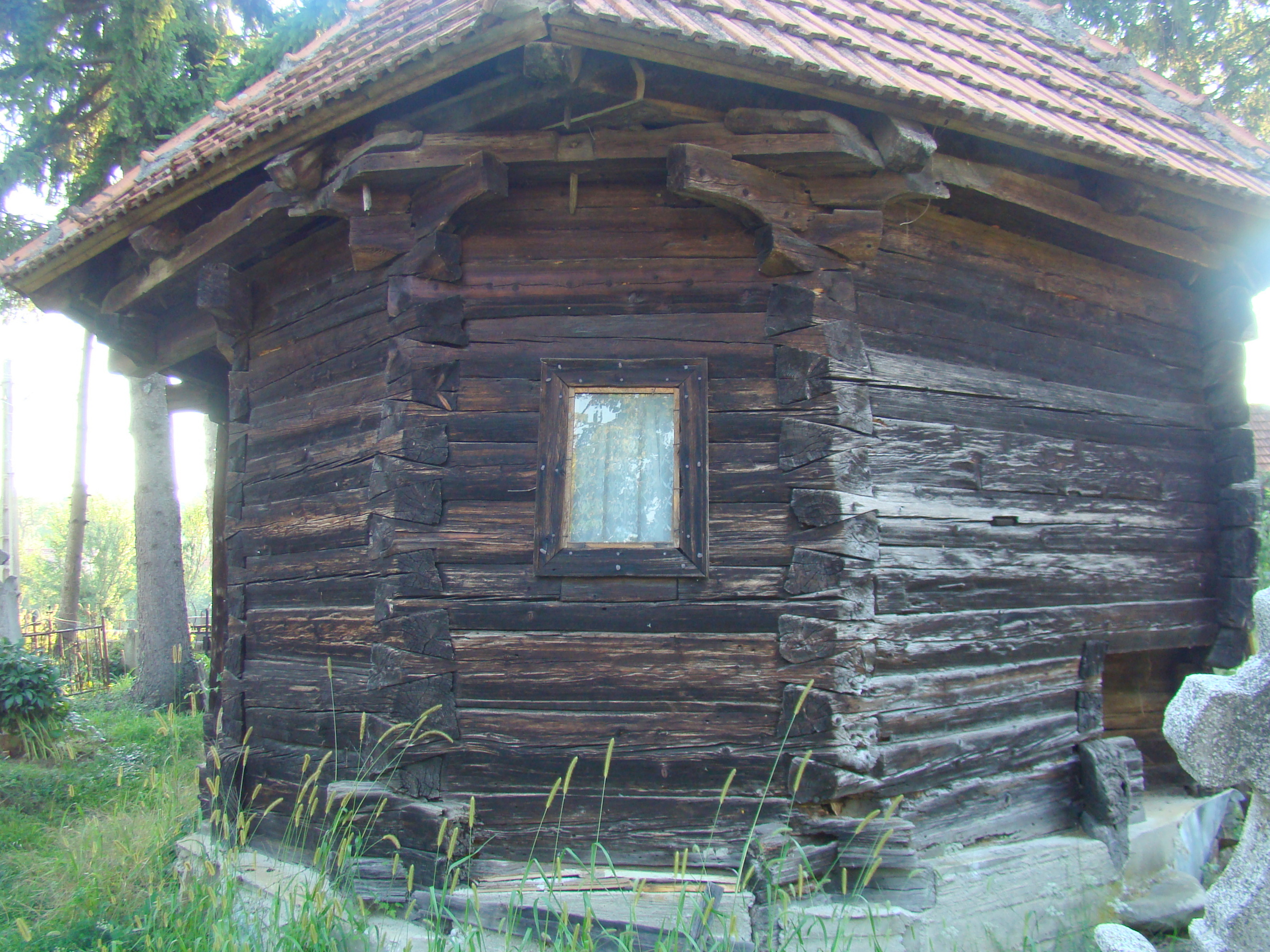 Wooden church in Pârvulești, Gorj county, Romania